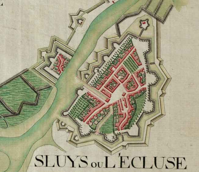 Sluis, Netherlands_;_ detail from Ferraris_Map